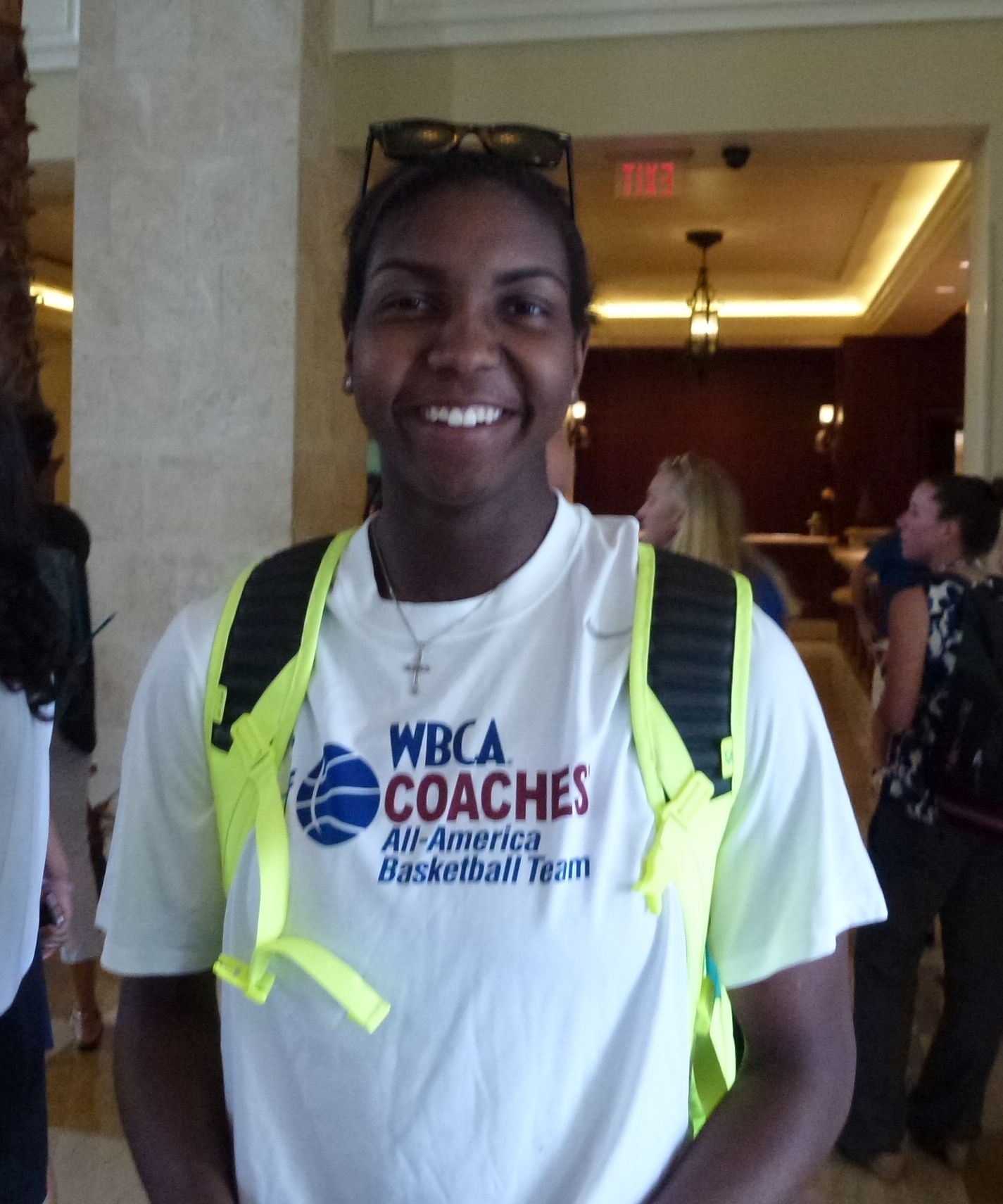 Elizabeth Williams at the 2015 WBCA convention, after being named to the 2015 WBCA All-America team